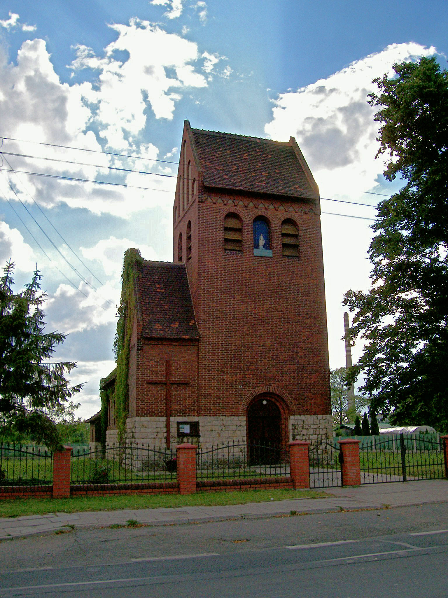 The church in Opole-Grotowice, Poland